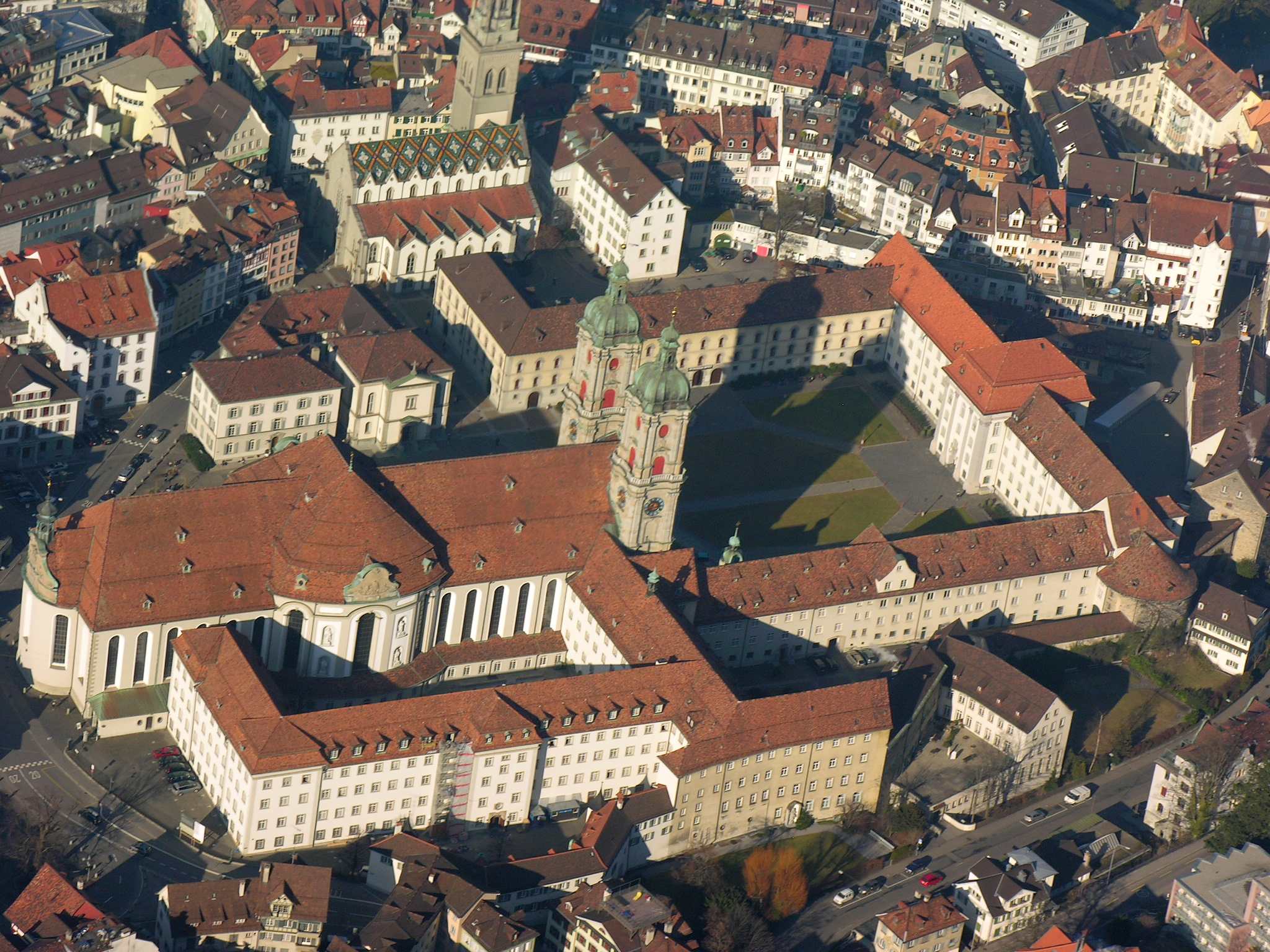 Aerial View of the Convent of St. Gall